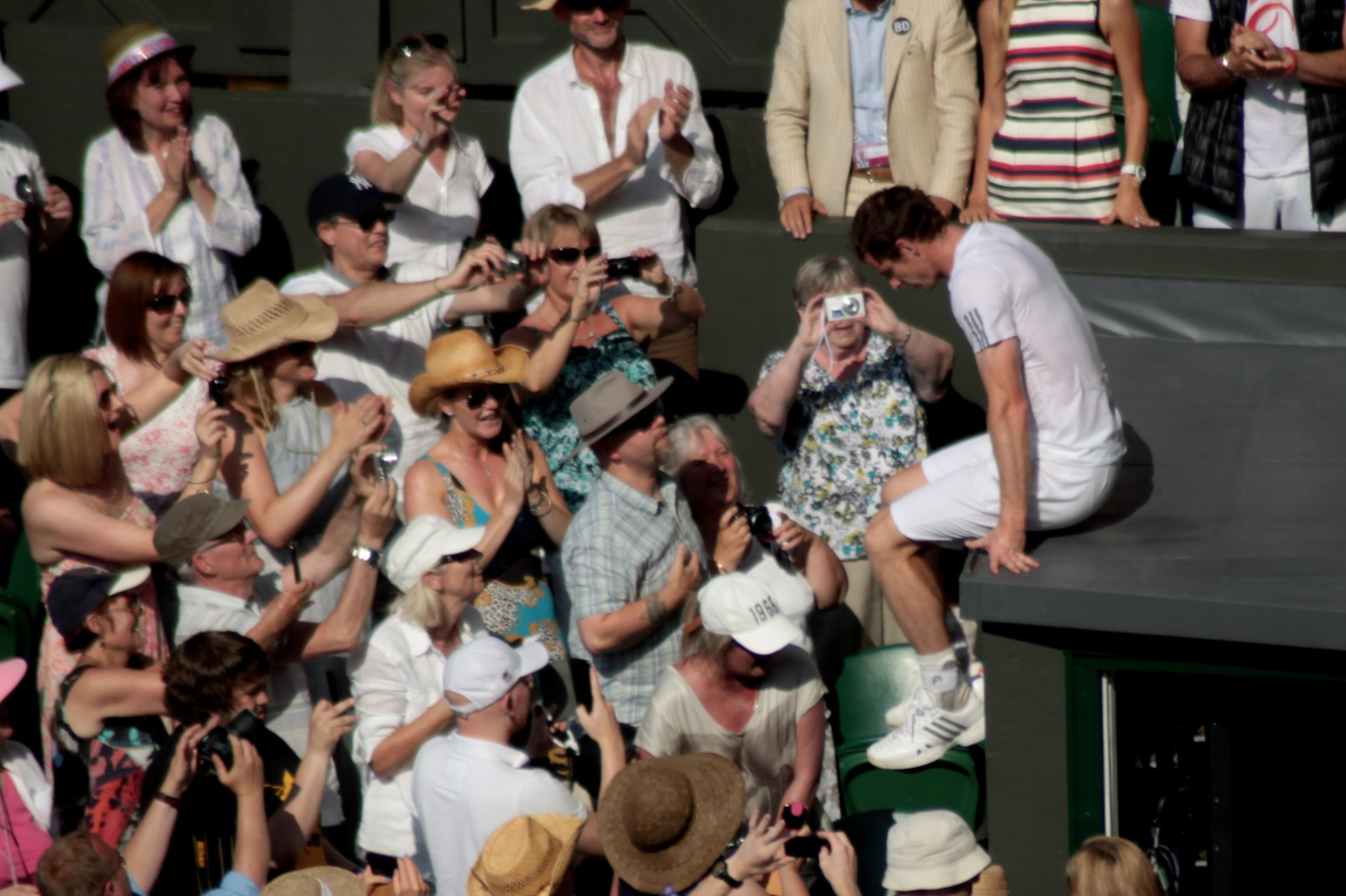 Andy Murray returns from his clamber to the player's box